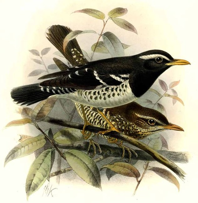 Zoothera wardii illustration by JG Keulemans